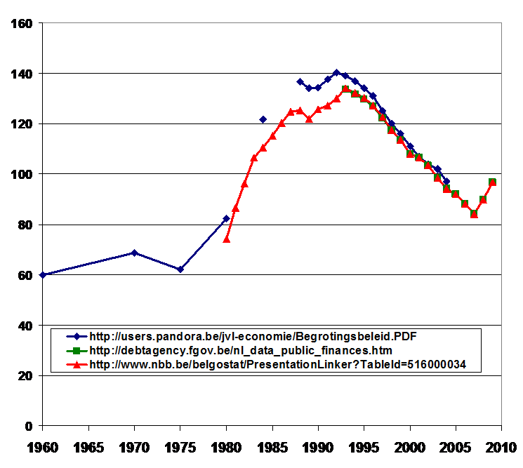 Belgian governement debt